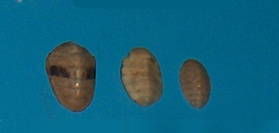 Lepidochitona (Lepidochitona) cinerea, a chiton from the family Tonicellidae